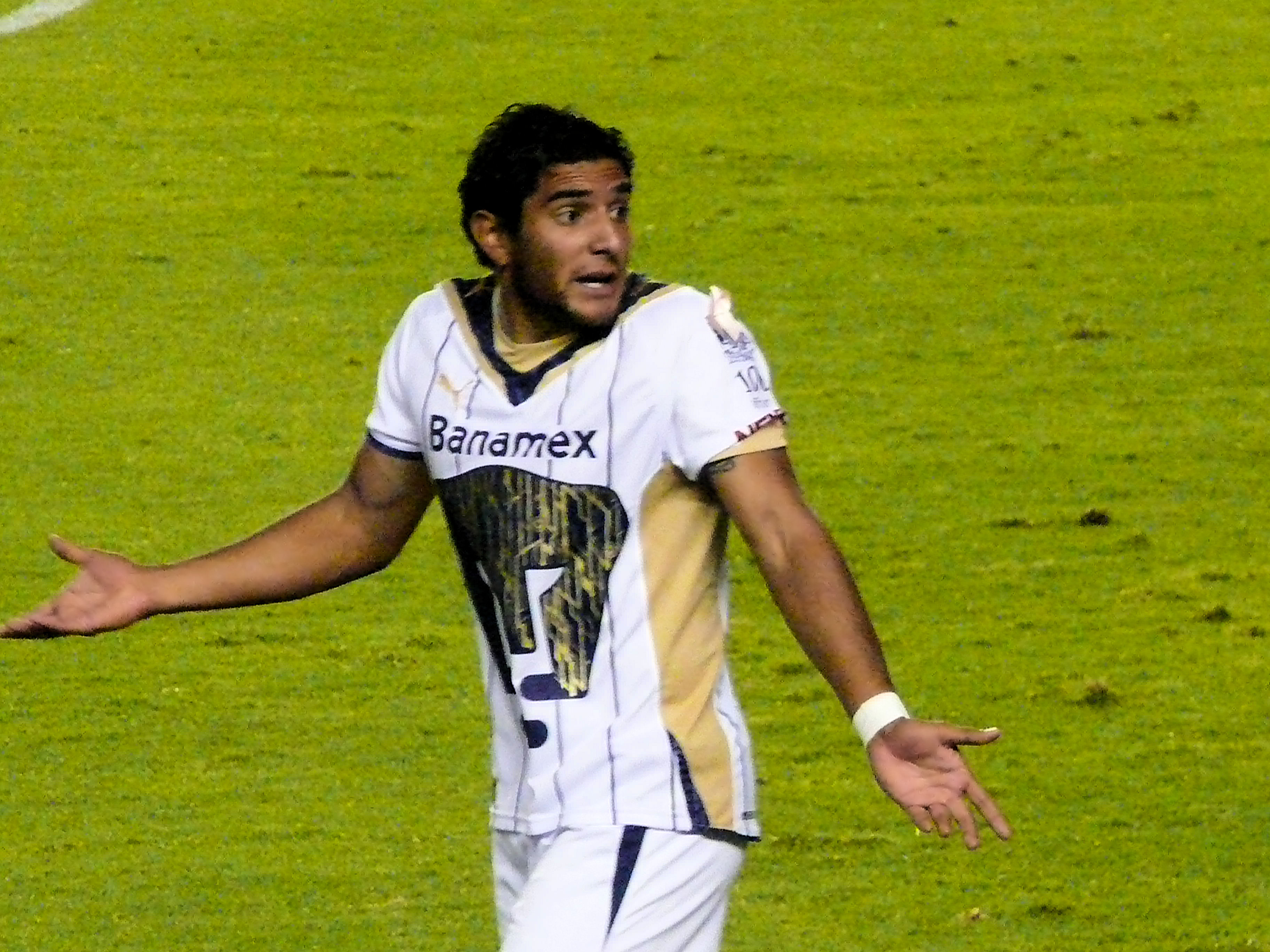 Martin Bravo of UNAM Pumas